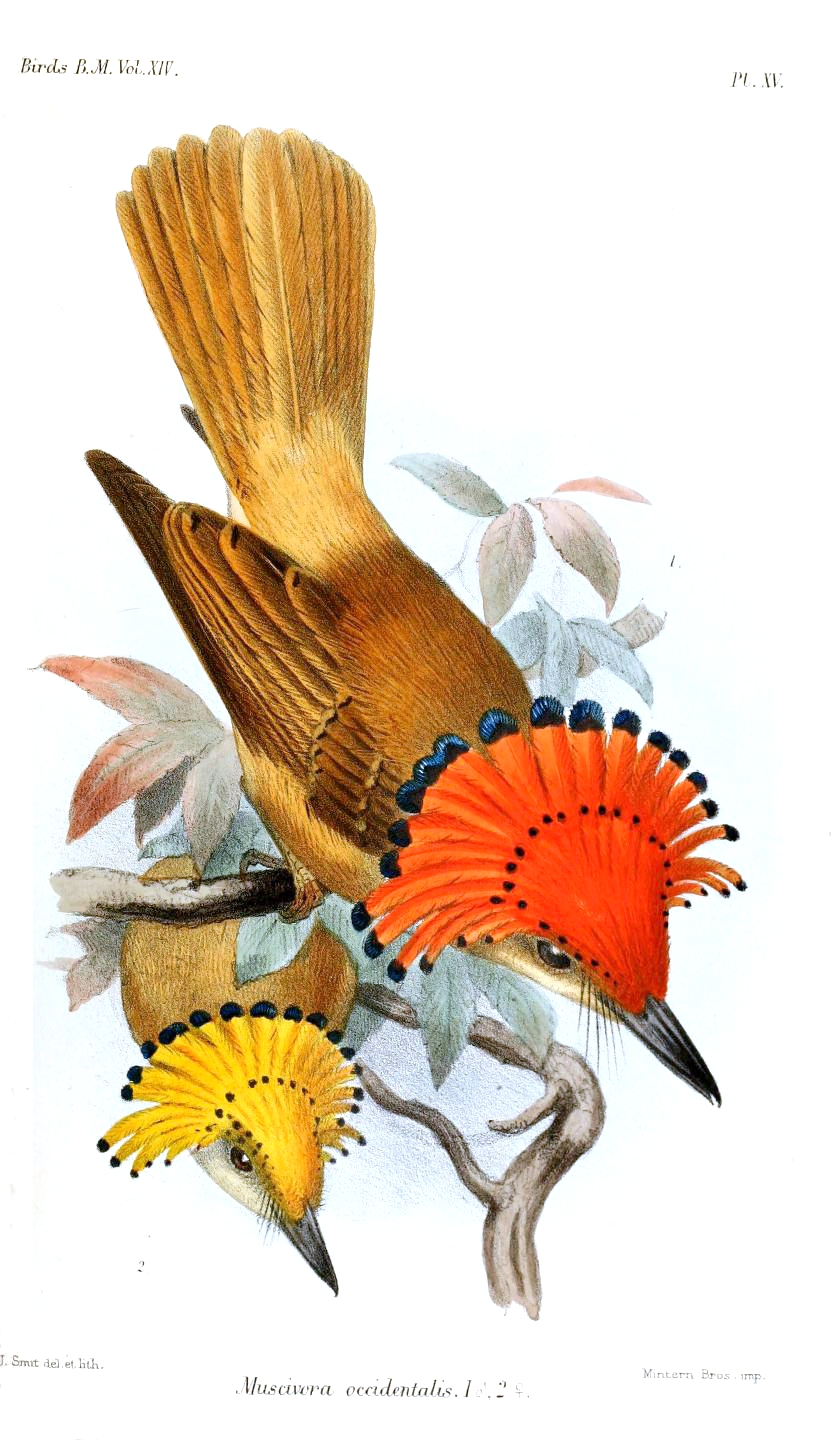 Muscivora occidentalis = Onychorhynchus occidentalis, Pacific Royal Flycatcher